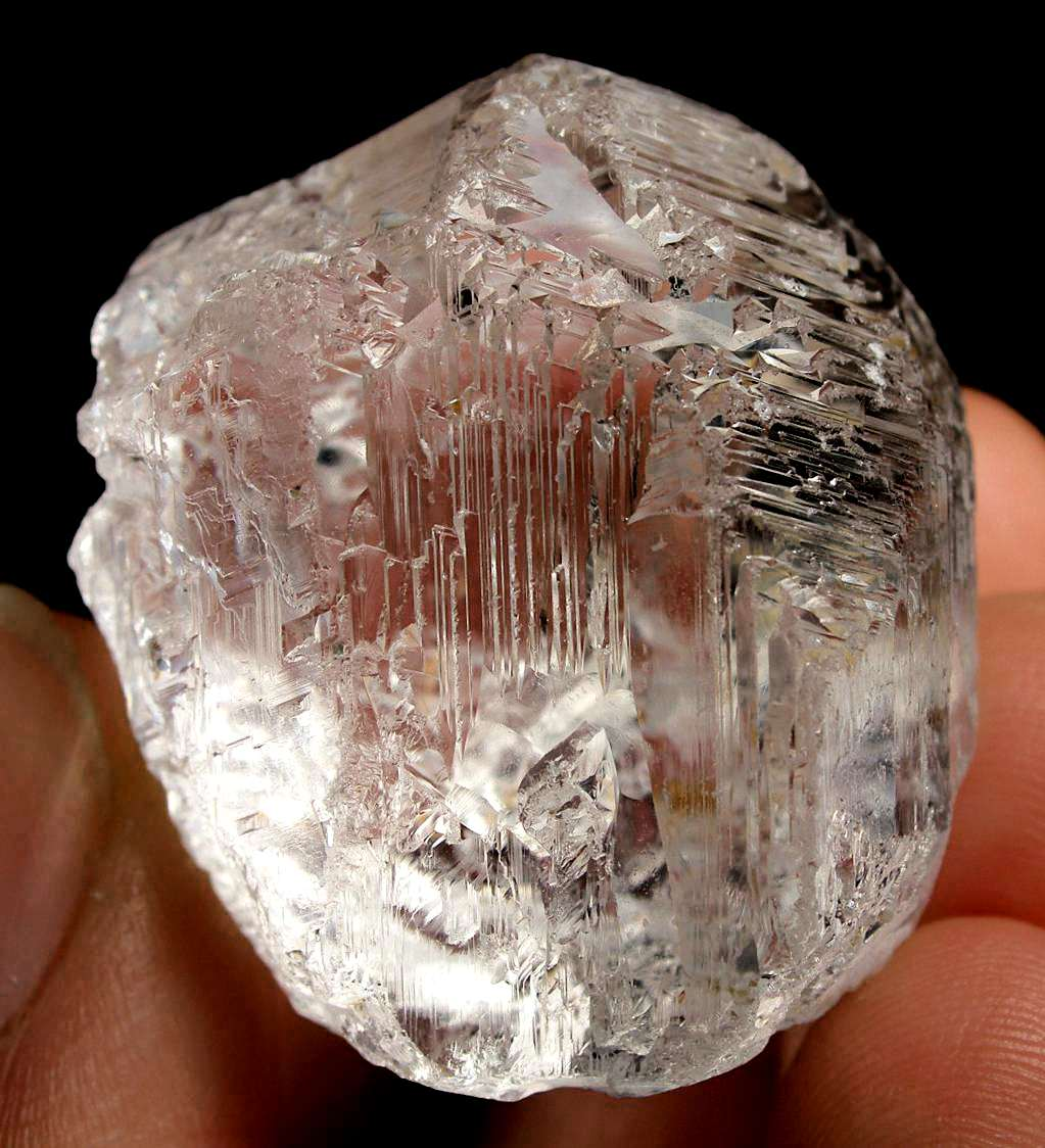 Phenakite Locality: Jos Plateau, Plateau State, Nigeria (Locality at ) Size: miniature, 3.1 x 2.9 x 2.6 cm Phenakite In person this 32-gram floater is a total gem. It is robust, gorgeous and exceptionally gemmy. It looks for all-the-world like a garnet at first glance and like no phenakite I have seen before, with typical surface complexity. But it is, instead, one of these new phenakites - a superb small miniature sized crystal. It is a floater, complete-all-around. The crystal itself is absolutely colorless, a pure colorlessness that adds to the gemminess of the specimen in person (and makes it extremely hard to photograph because light refracts off all the hundreds of facets and faces here, bouncing back and forth through the crystal and making the camera unable to capture its true clarity).